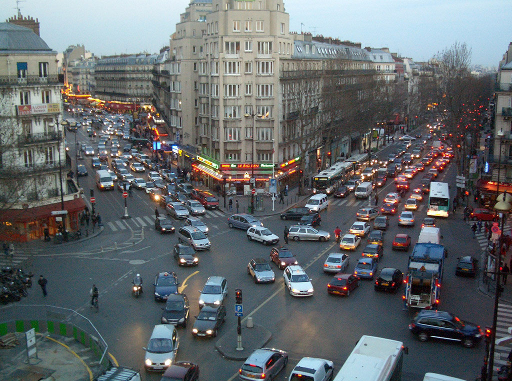 Circulation Dingue (Parisian Traffic), Place De Roubaix, Gare Du Nord, Paris, 25 mar 2005